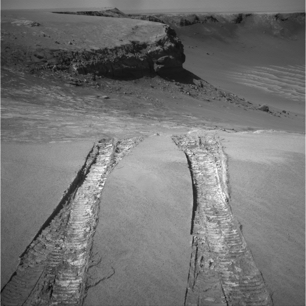 NASA's Mars Exploration Rover Opportunity climbed out of "Victoria Crater" following the tracks it had made when it descended into the 800-meter-diameter (half-mile-diameter) bowl nearly a year earlier. The rover's navigation camera captured this view back into the crater just after finishing a 6.8-meter (22-foot) drive that brought Opportunity out onto level ground during the mission's 1,634th Martian day, or sol (Aug. 28, 2008). The rover laid down the first tracks at this entry and exit point during its 1,291st sol (Sept. 11, 2007), after about a year of exploring around the outside of Victoria Crater for the best access route to the interior. On that sol, Opportunity drove a short distance into the crater and then backed out to check that the footing was good enough to trust this point as an exit route when the work in the crater was finished. Two sols later, Opportunity drove in again for its extended investigation of the rock layers exposed inside the crater. While inside, the rover spent several months using the contact instruments on its robotic arm to analyze the composition of the rock layers it could drive across on the surface of the upper slope. Then Opportunity drove close to the base of the "Cape Verde" promontory that forms part of the crater rim and appears in the upper center of this image. From that perspective, the rover used its panoramic camera to examine details of layering in the 6-meter-tall (20-foot-tall) cliff. For scale, the distance between the parallel tracks left by the rover's wheels is about 1 meter (39 inches) from the middle of one track to the middle of the other. After getting past the top of the inner slope of the crater, the Sol 1634 drive also got through a sand ripple where the tracks appear deepest.